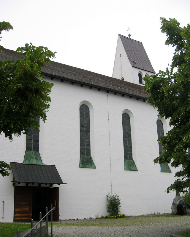 St. Benedikt in Gauting